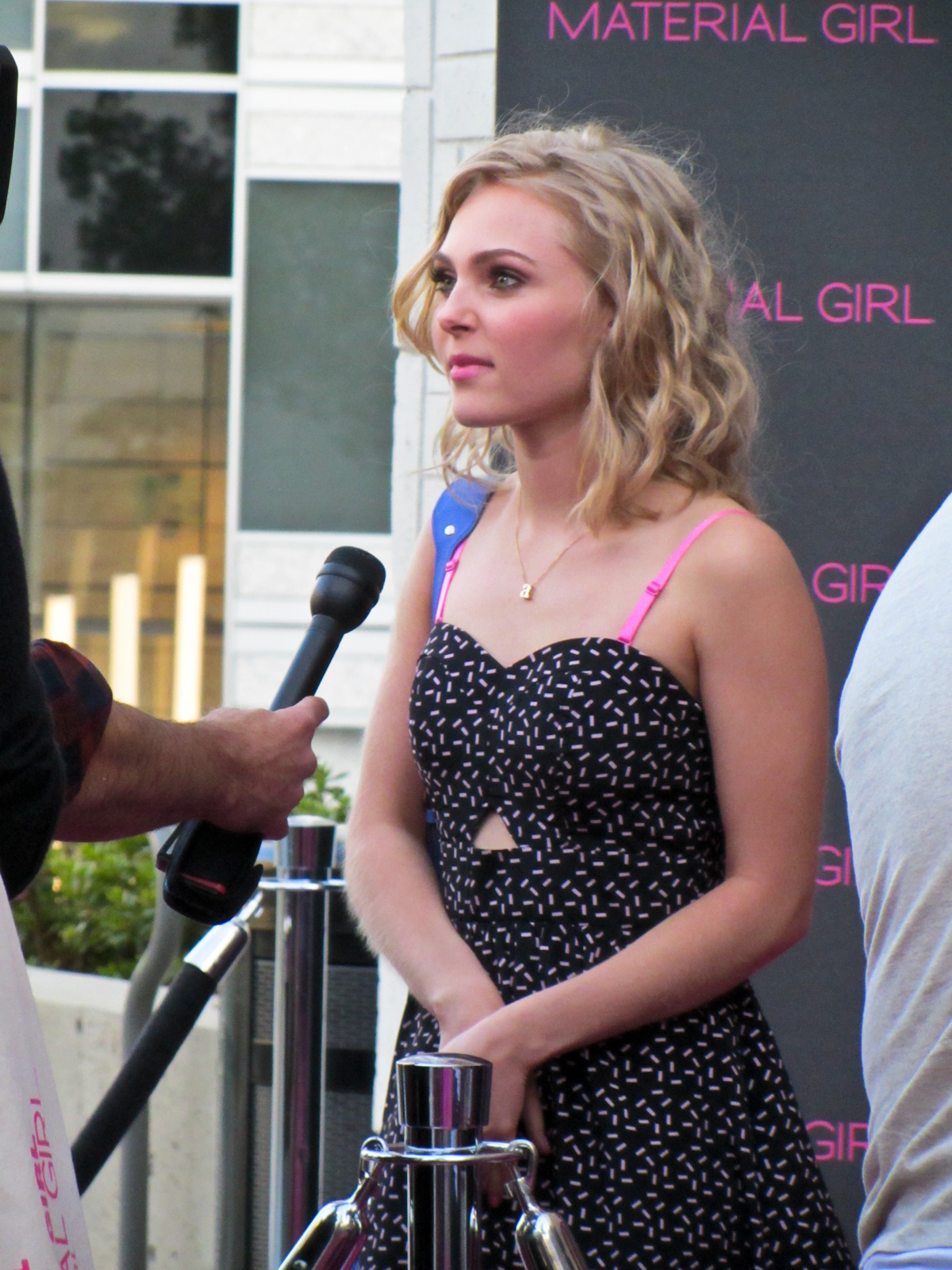 One of the celebs who turned up...